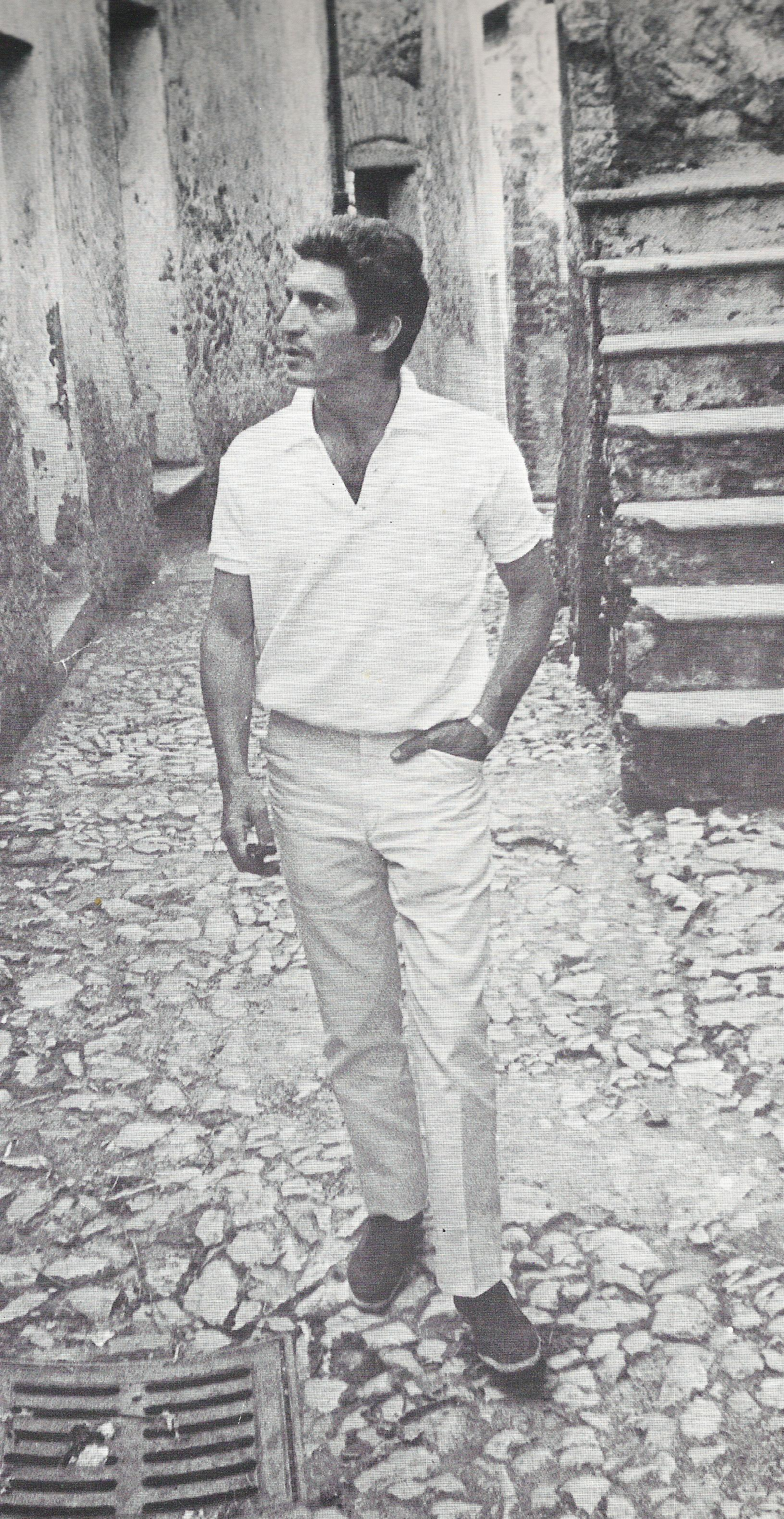 Publicity photo in Sergio Franchi 1970 Publicity Brochure